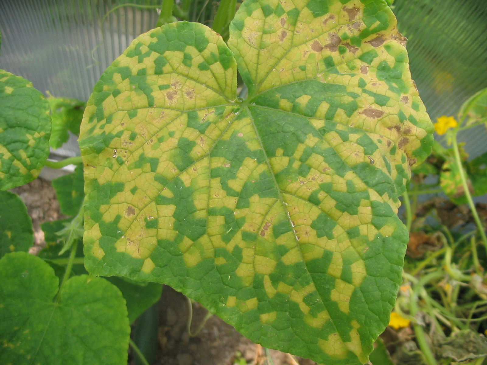 Downy Mildew on a cucumber (typical mosaik structure on the upper side of the leave)